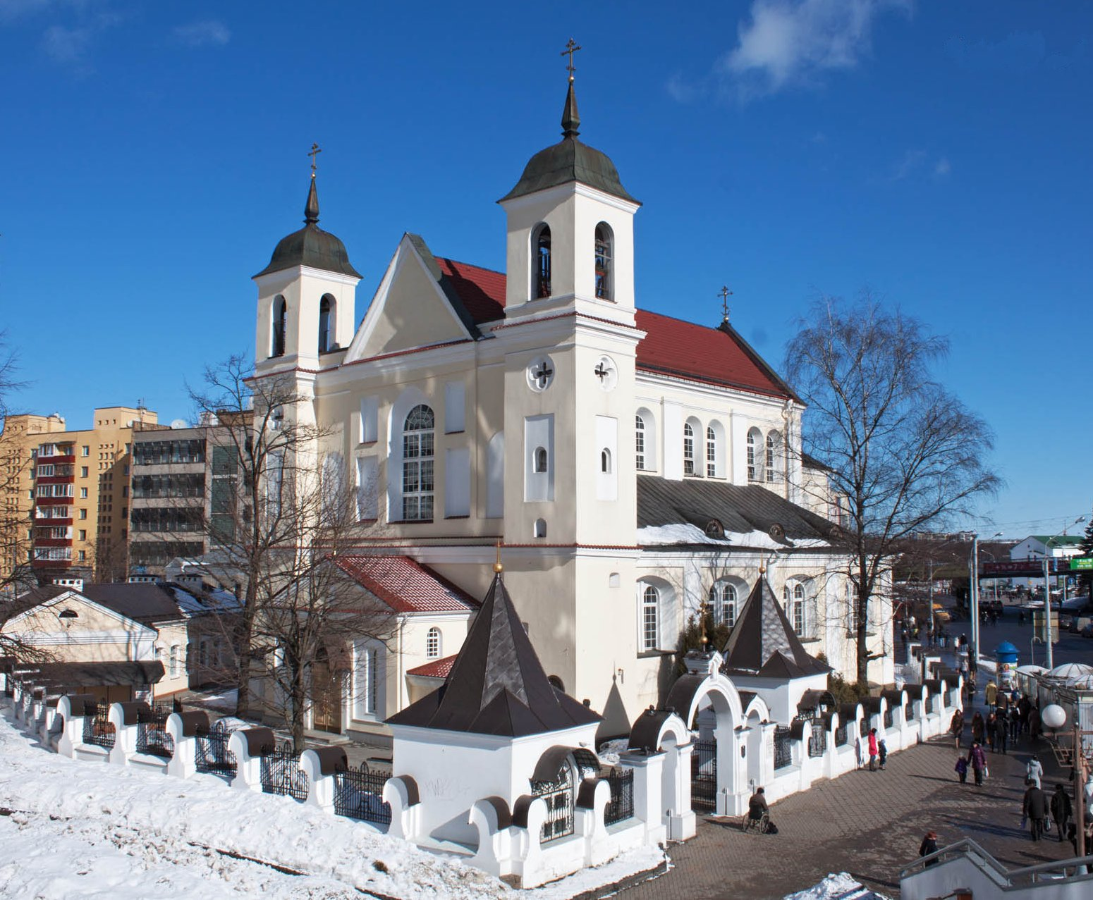 Saints Peter and Paul Cathedral at Minsk, Belarus